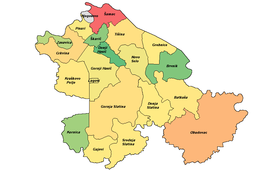 Šamac